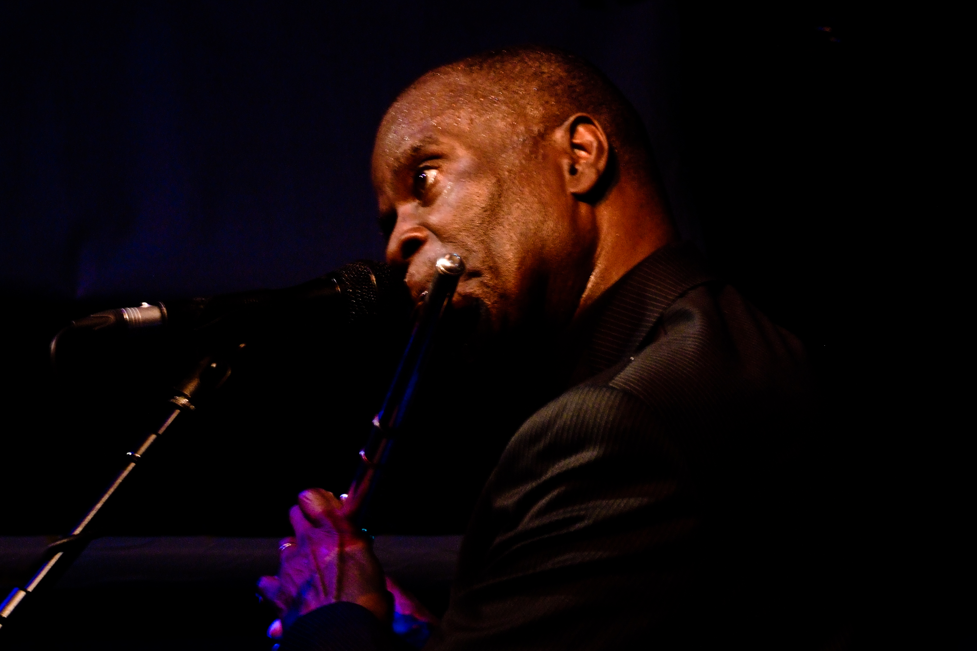 Maceo Parker performing at the Jazz Cafe (London): 22/05/2009